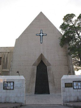 St_Paul_Damascus